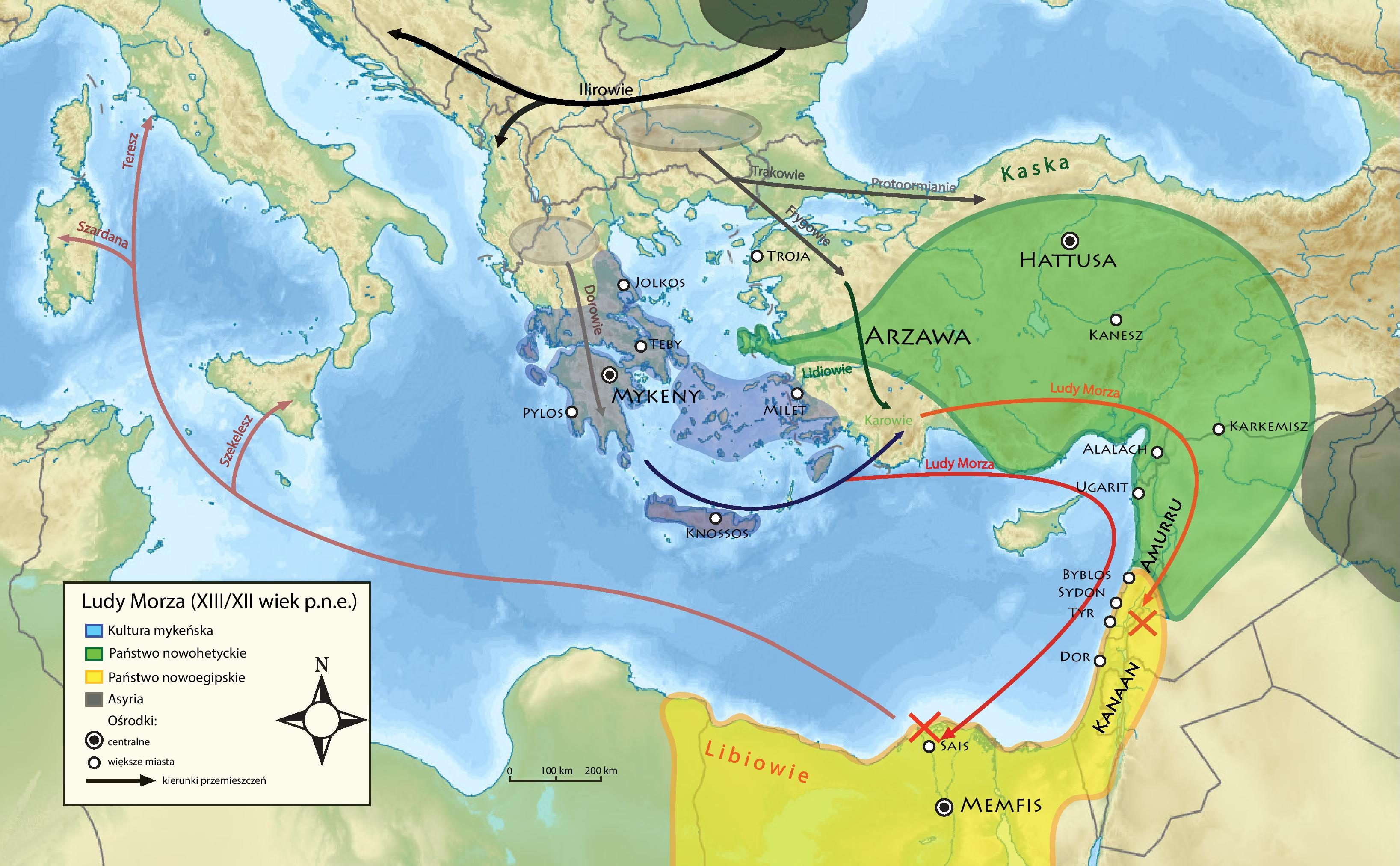 Sea Peoples XIII/XII c. B.C.